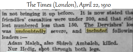 Darawiish leaders Shire Umbaal, Nur Hiddig, and Adam Maleh